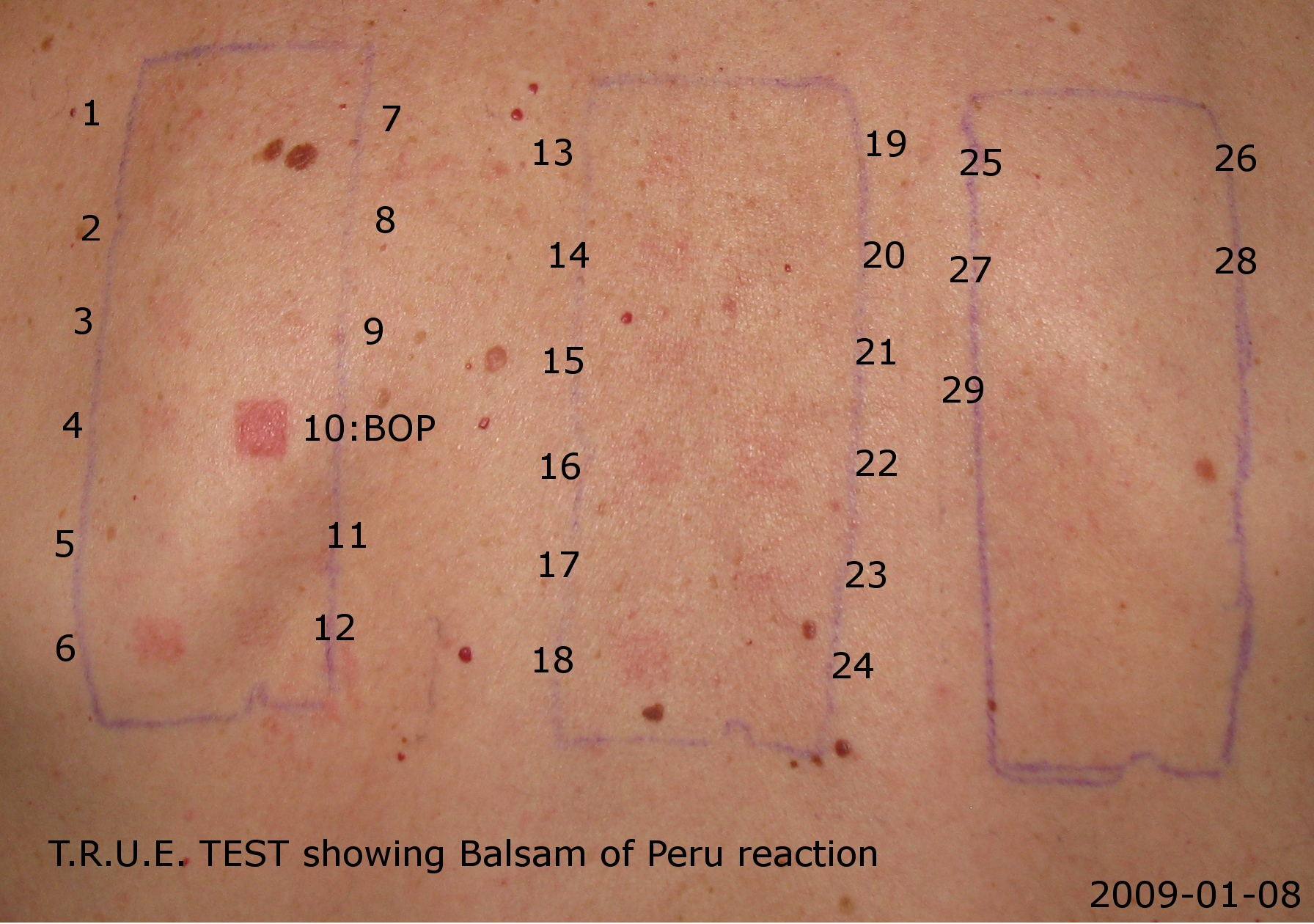 Image of the contributor's back after 72 hours exposure to the standard T.R.U.E. (Thin-Layer Rapid Use Epicutaneous) patch test proving strong reaction to Balsam of Peru, and moderate reaction to the Fragrance Mix. Balsam of Peru